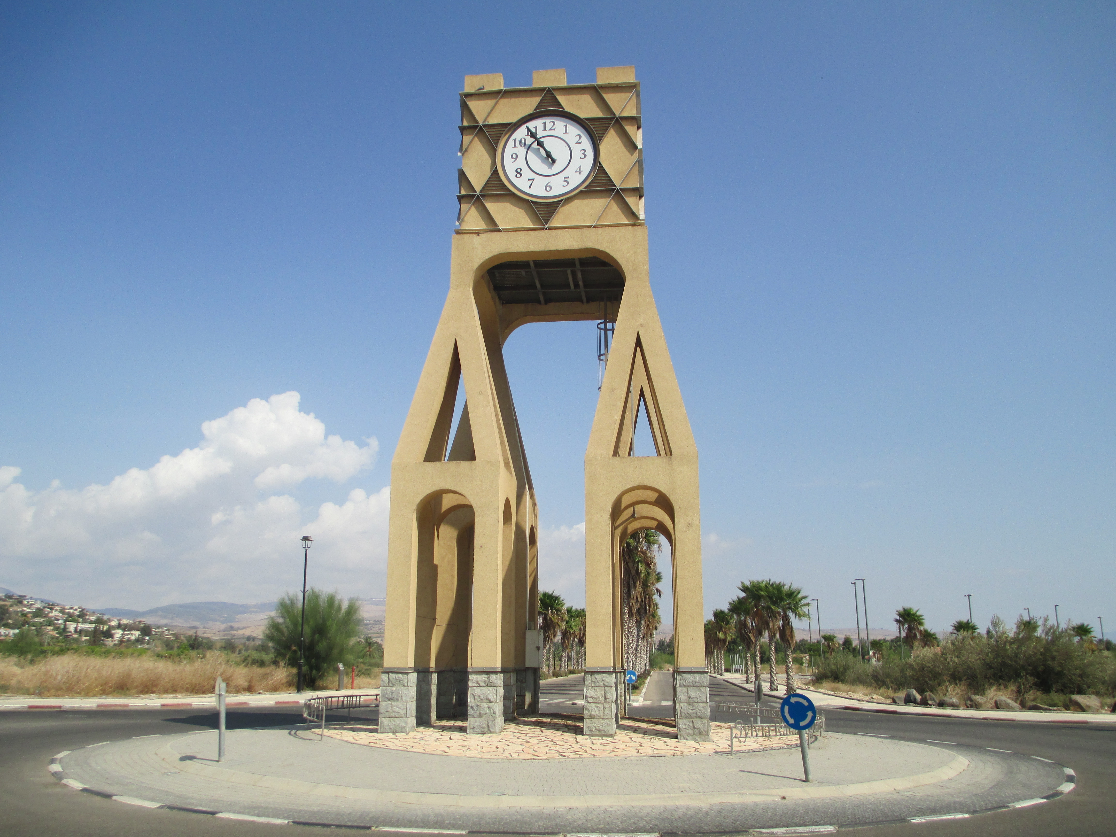 Sylvia Rafael square in Migdal